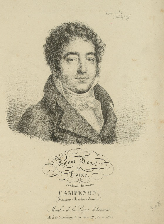 Portrait of French writer Vincent Campenon (1772-1843)